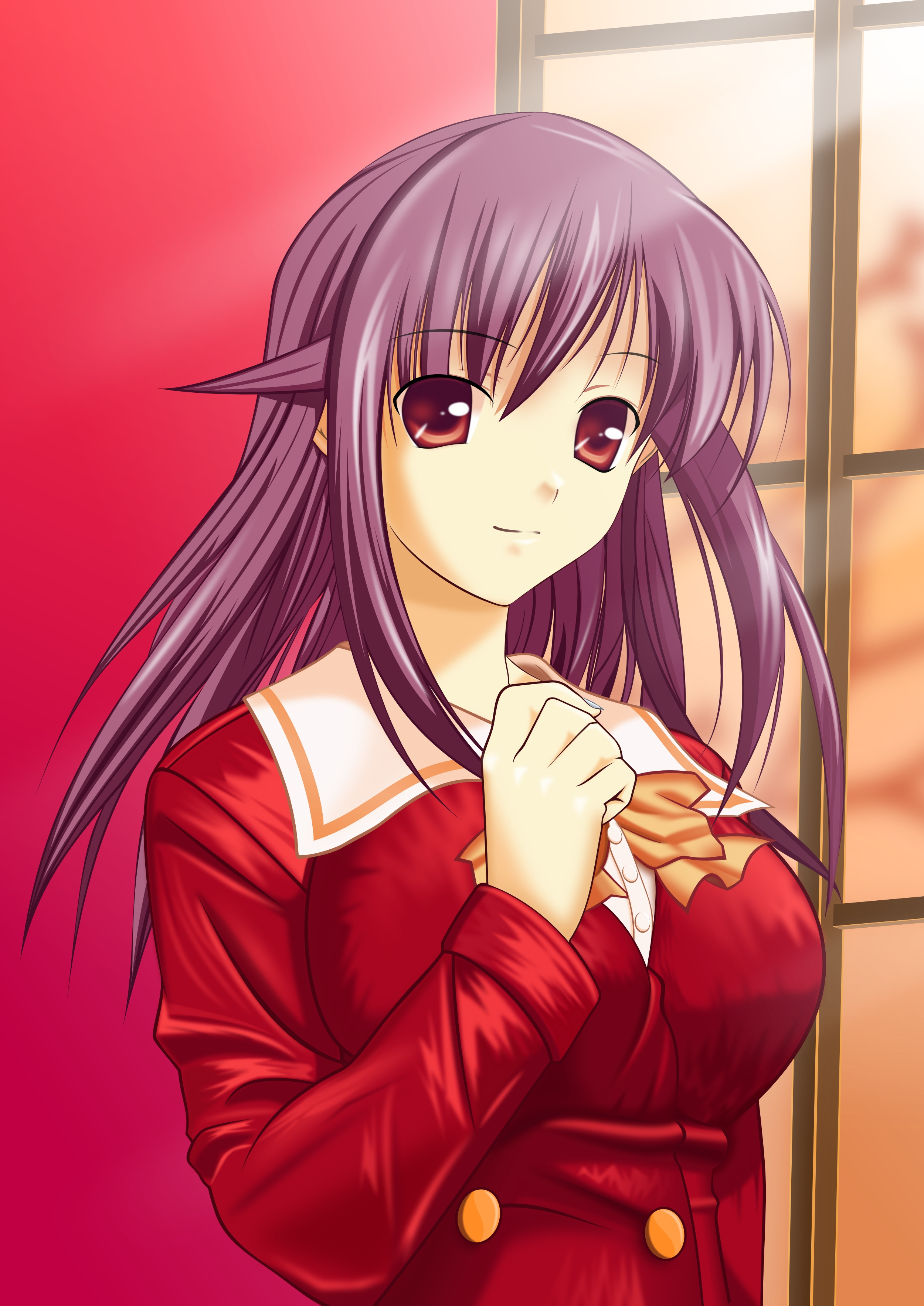 Drawing of an anime character with the name "Mahuri", it combines design elements of Mahoro from Mahoromatic and Haruhi from Suzumiya Haruhi no Yūutsu.